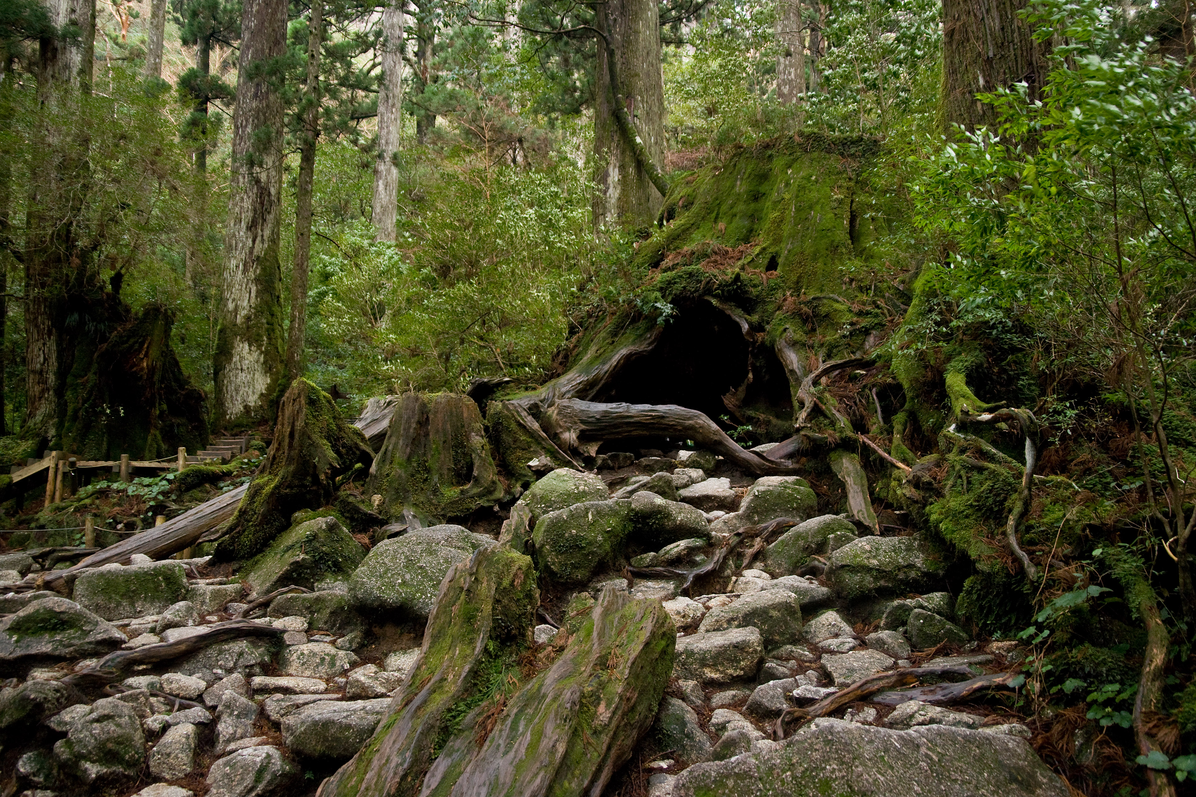 Wilson's stump in Yakushima, Kagoshima Pref., Japan.